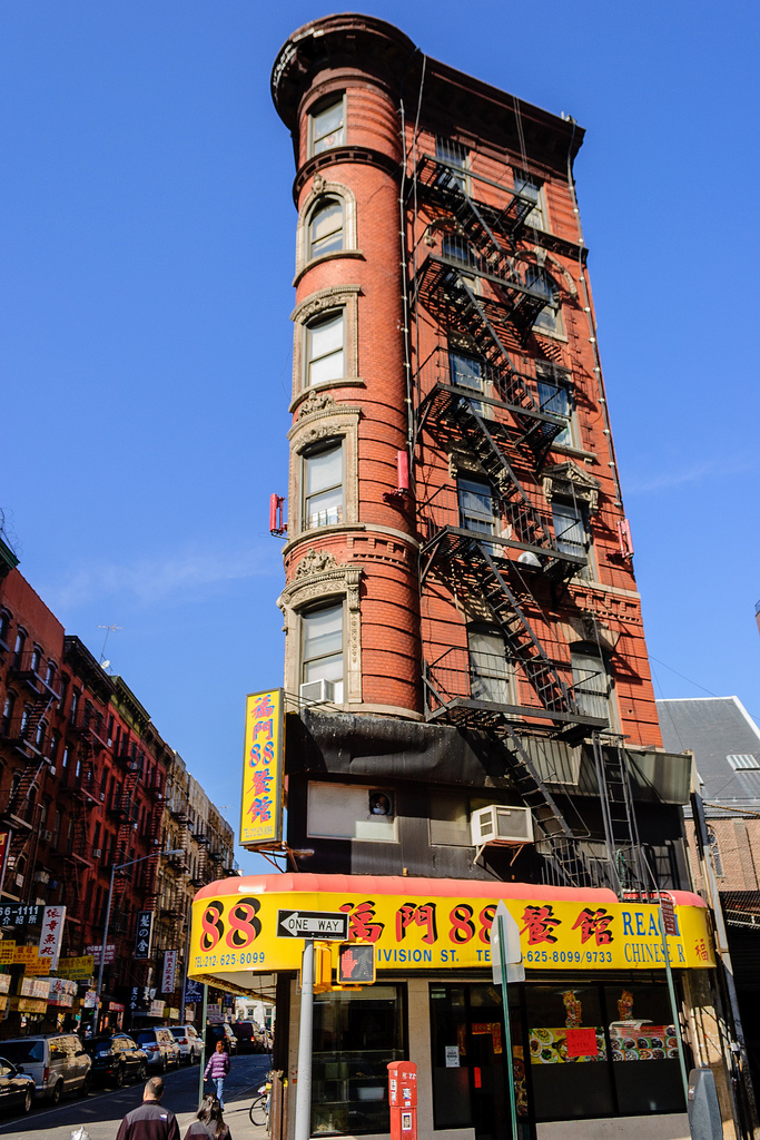 New York City-023 Chinatown small building. 88 Division Street at Eldridge Street.